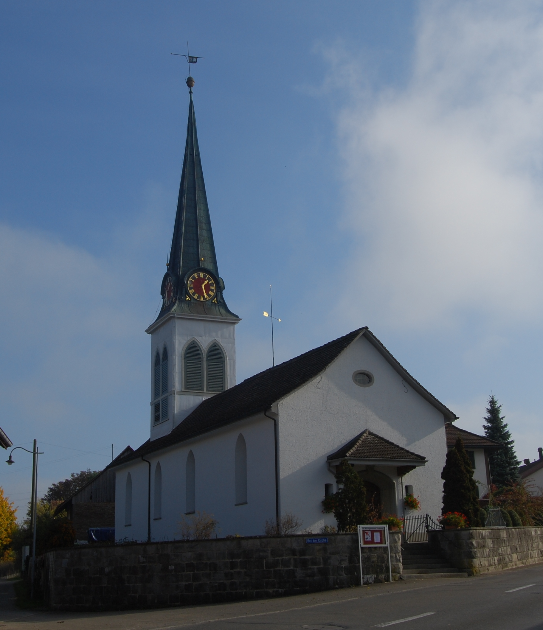 Church of Thalheim an der Thur, canton of Zürich, SwitzerlandEsperanto: Preĝejo de Thalheim ĉe Turo, Kantono Zuriko, Svislando